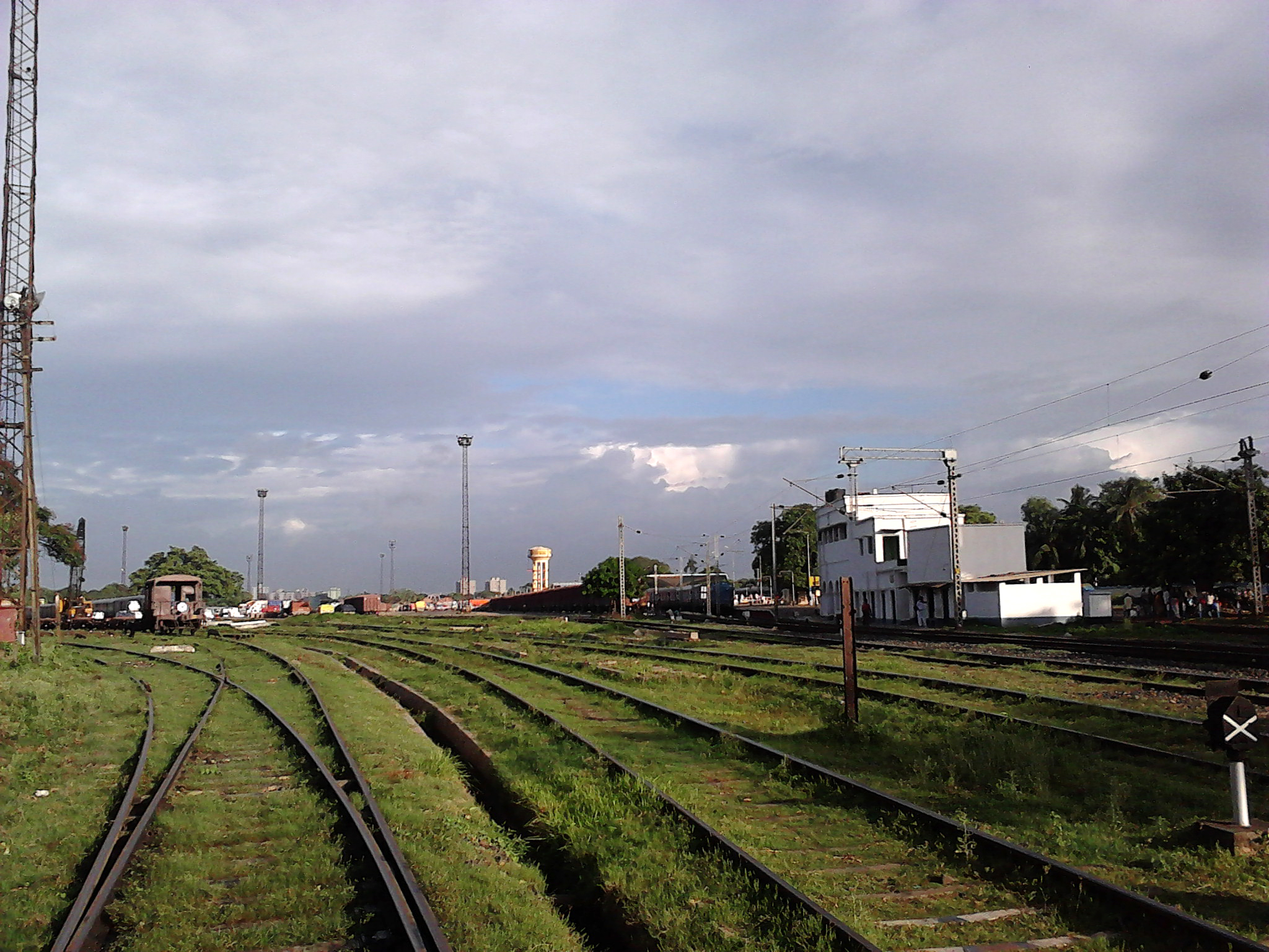 The Shalimar railway station of South Eastern Railway, Howrah.